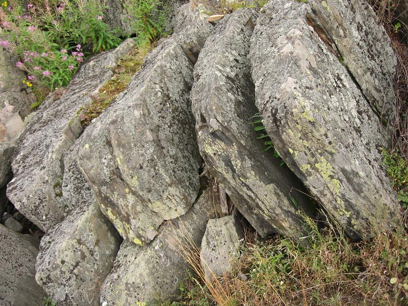 Rock from Roihuvuori